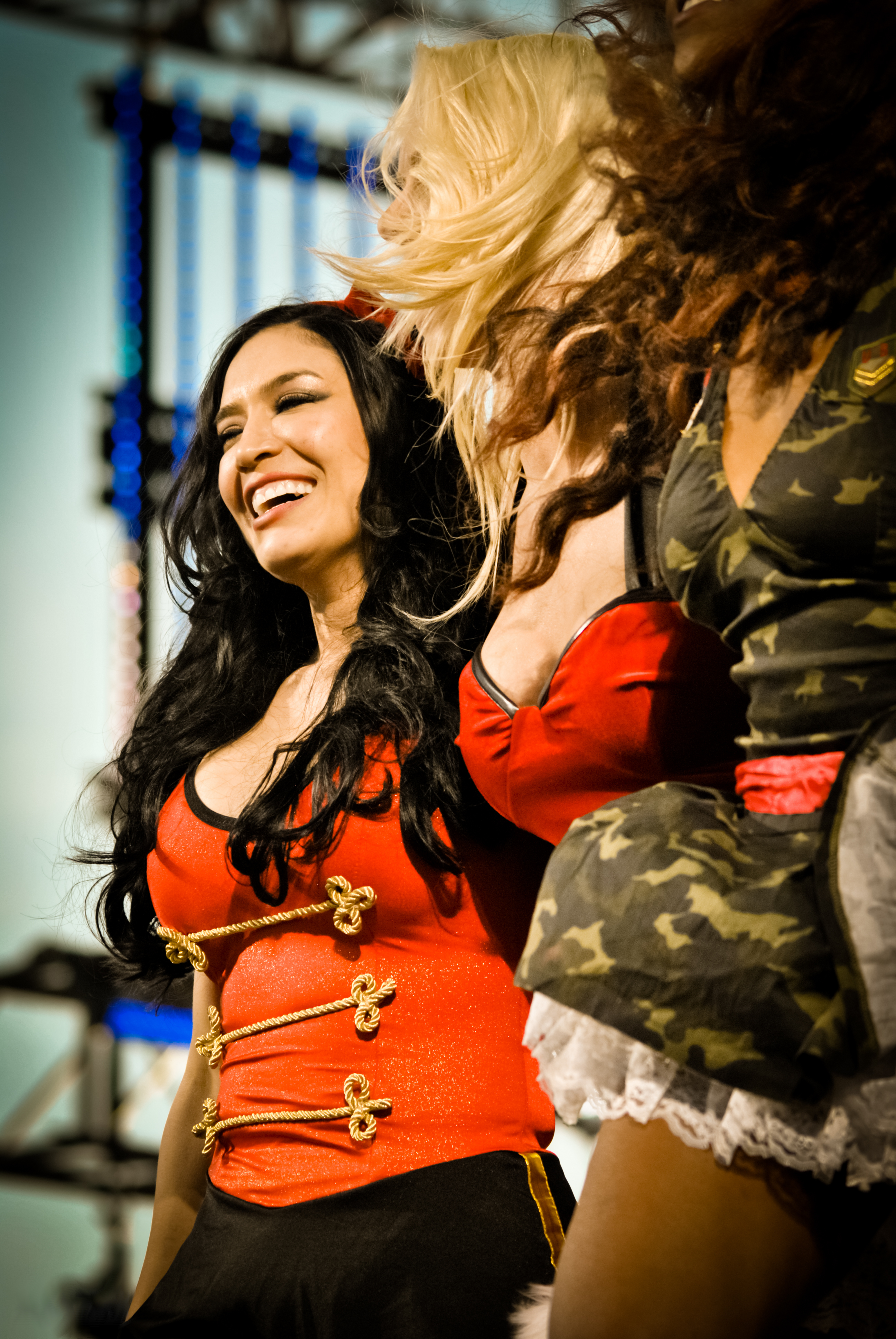 Melina at Tribute to the Troops, December 11, 2010, Fort Hood, Texas.